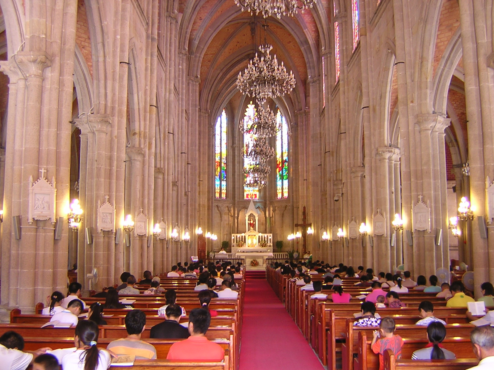 Inside the Cathedral of the Sacred Heart (or Stone Church) in Guangzhou.